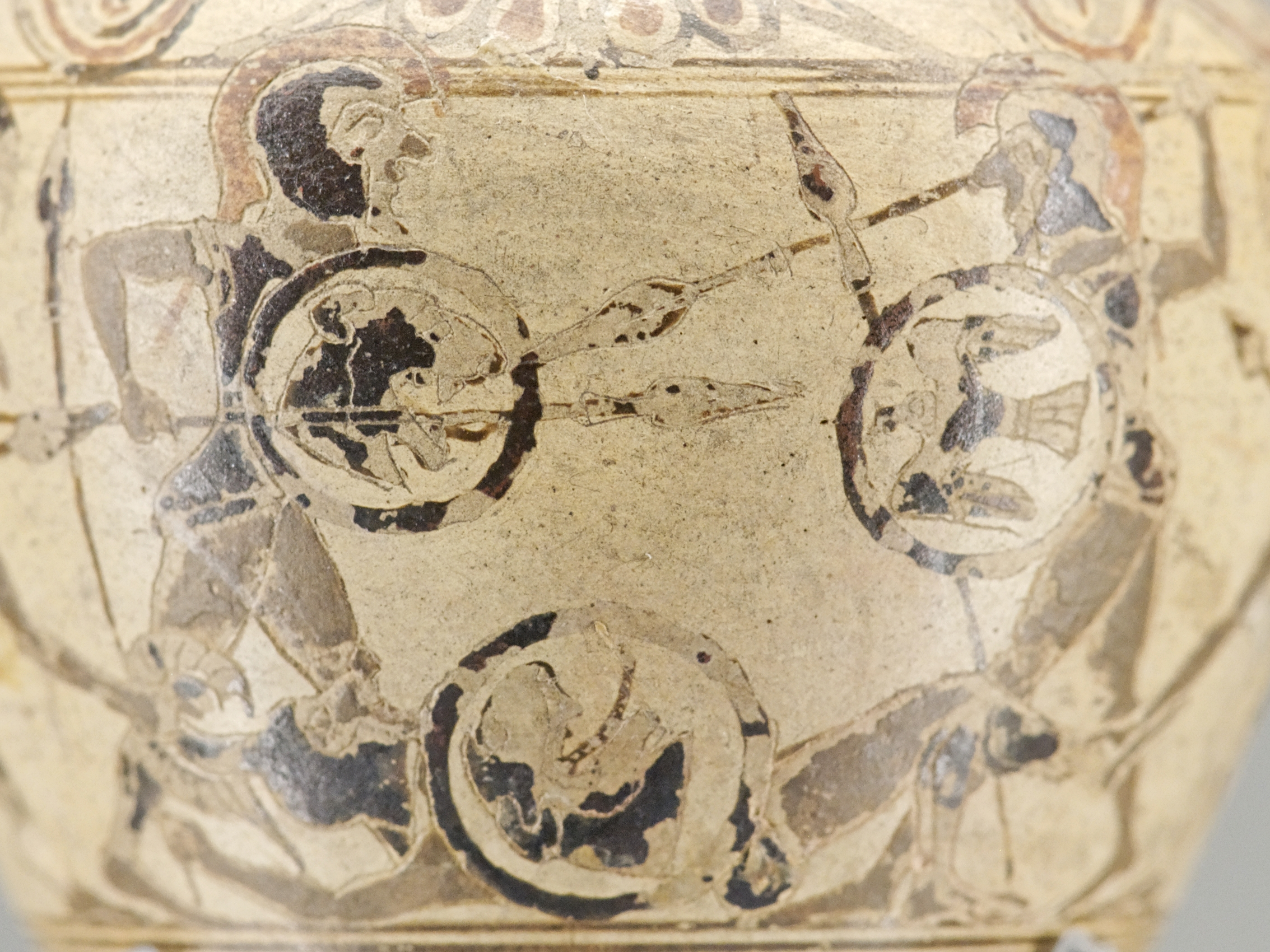 Hoplites fighting. Belly of a plastic aryballos in the shape of a woman's head, Late Protocorinthian (ca. 650–630 BC). From Thebes, Boeotia.